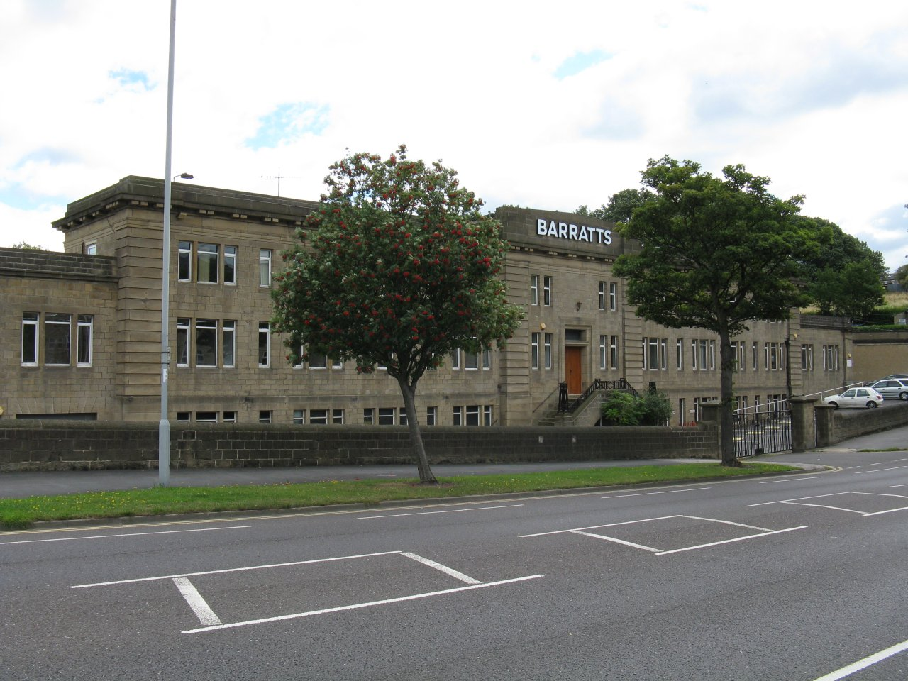 Barratts shoe warehouse and distribution centre, Harrogate Road, Apperley Bridge, Bradford, West Yorkshire. The sign at the roof level until recently said 'Stylo' - (photo available).